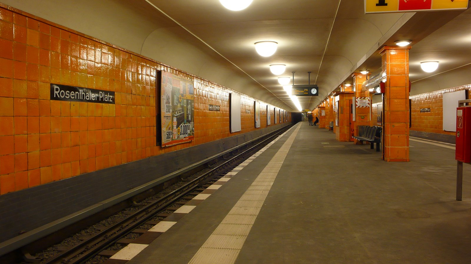 Rosenthalerplatz subway station Berlin